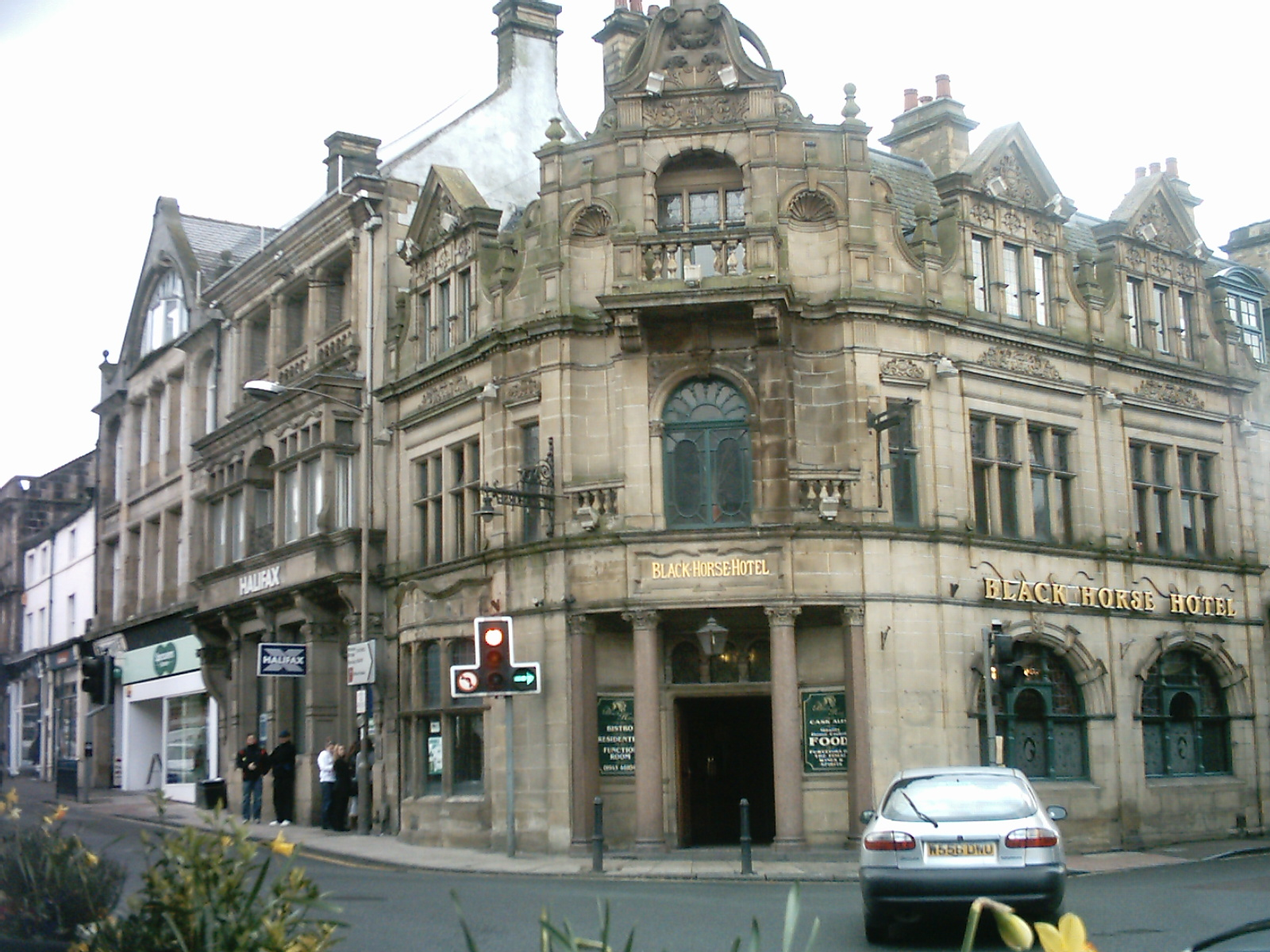 The Black Horse Hotel at Otley, West Yorkshire